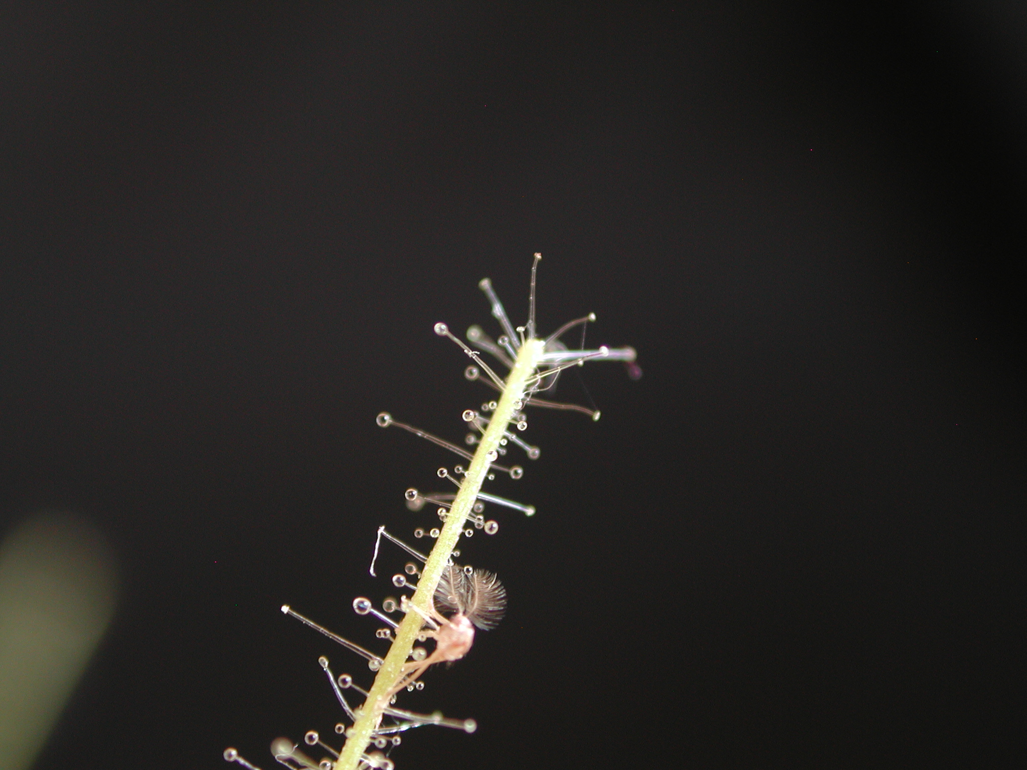 detail of Byblis filifolia growing in culture